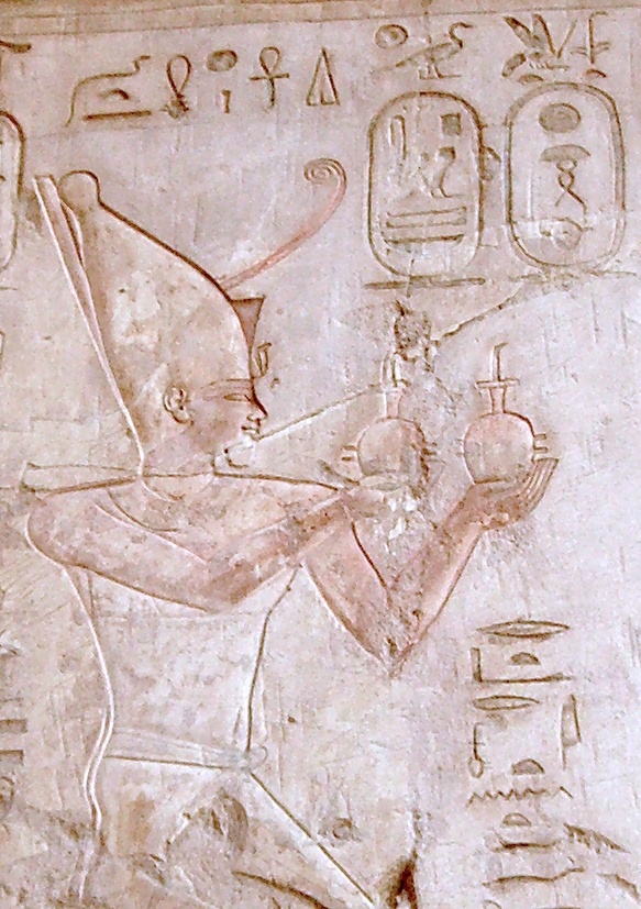 Psammetichus I adoring Ra-Harakhte - Pabasa's tomb in the Theban Necropolis - 26th dynasty of Egypt. Using the milk-jug hieroglyph in text in front of Pharaoh, (and two milk jugs in hands): "Making (offering of) Milk"